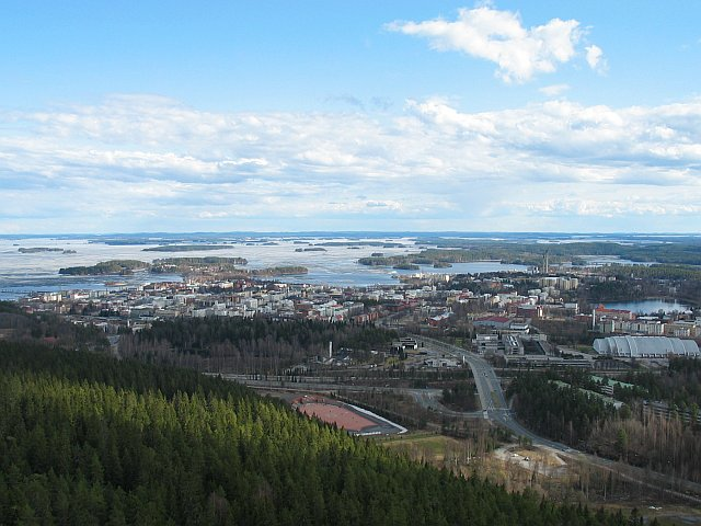 The centre of Kuopio and the southern parts of Lake Kallavesi as viewed from the Puijo tower on May 10, 2003.